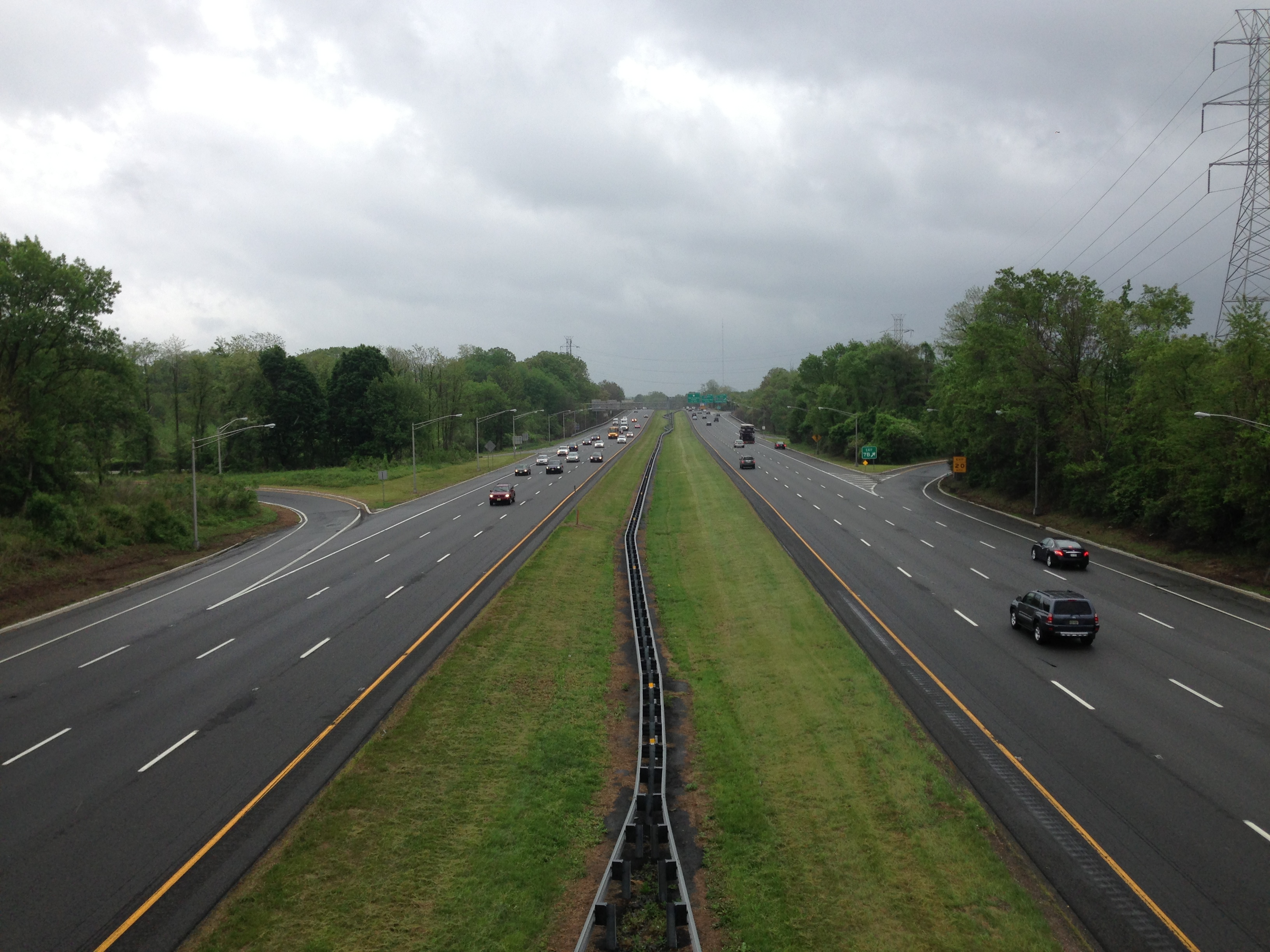 View north along Interstate 95 from the overpass for U.S. Route 206 (Lawrence Road) in Lawrence Township, Mercer County, New Jersey